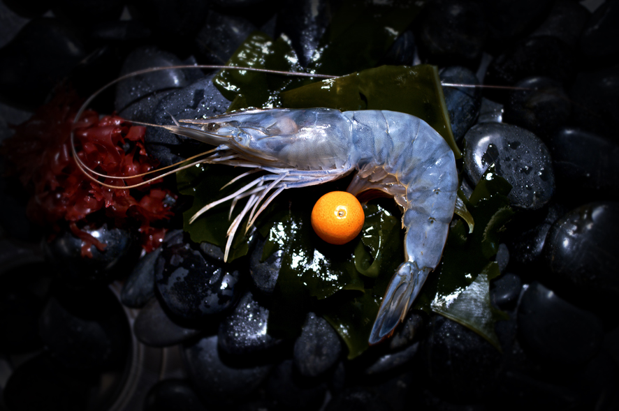 A prawn (Litopenaeus stylirostris) photographed in a setting that highlights its blue colour